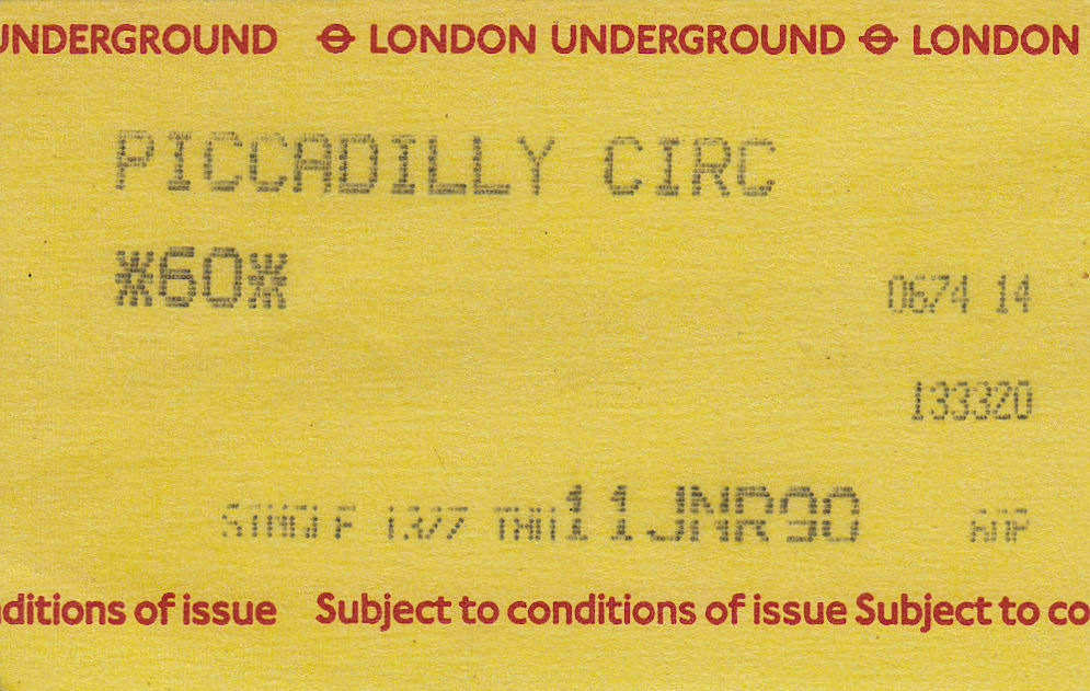 Ticket Subway London (1990)